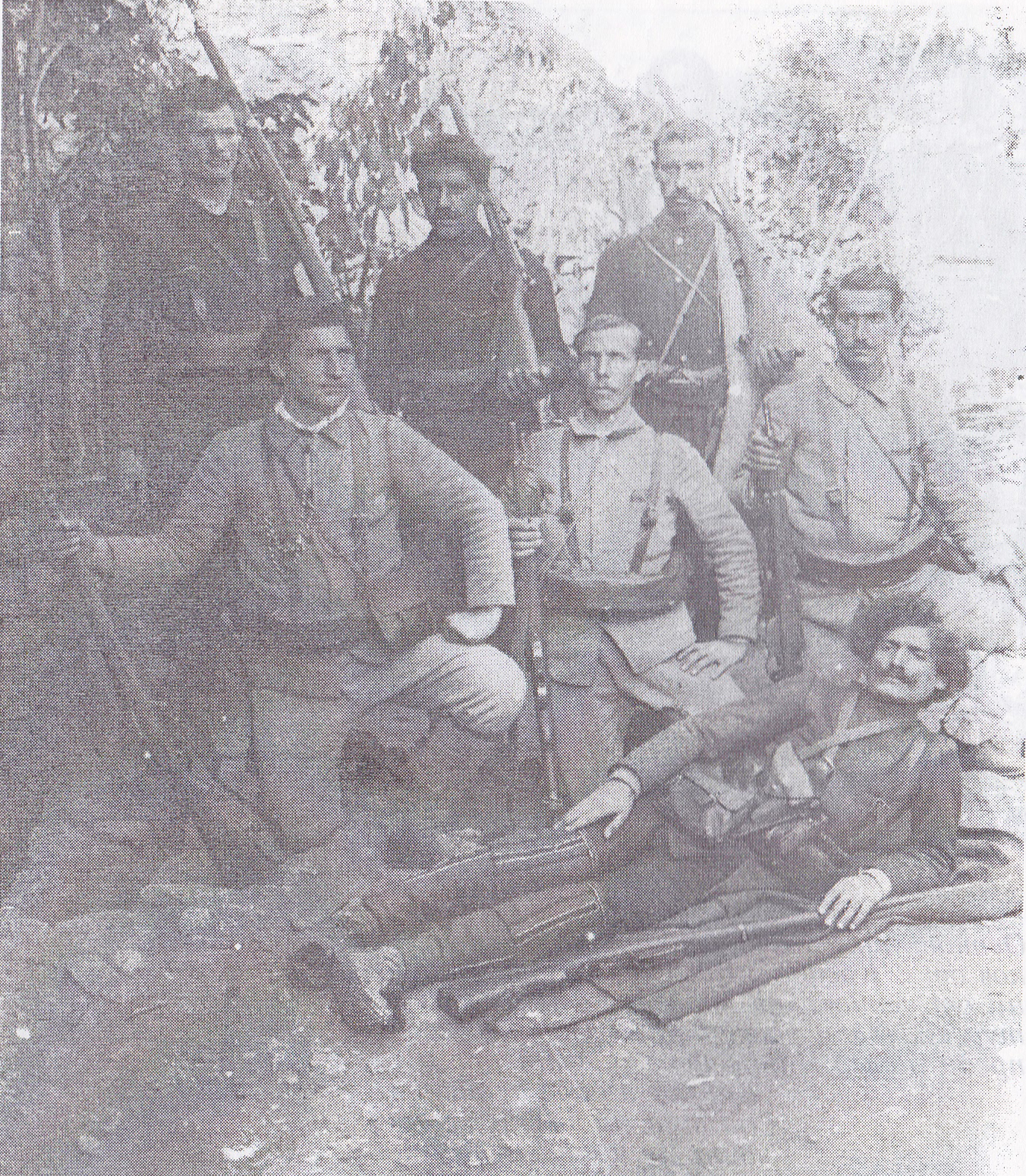 revolutionaries from Bulgaria, picture taken in Kosinets